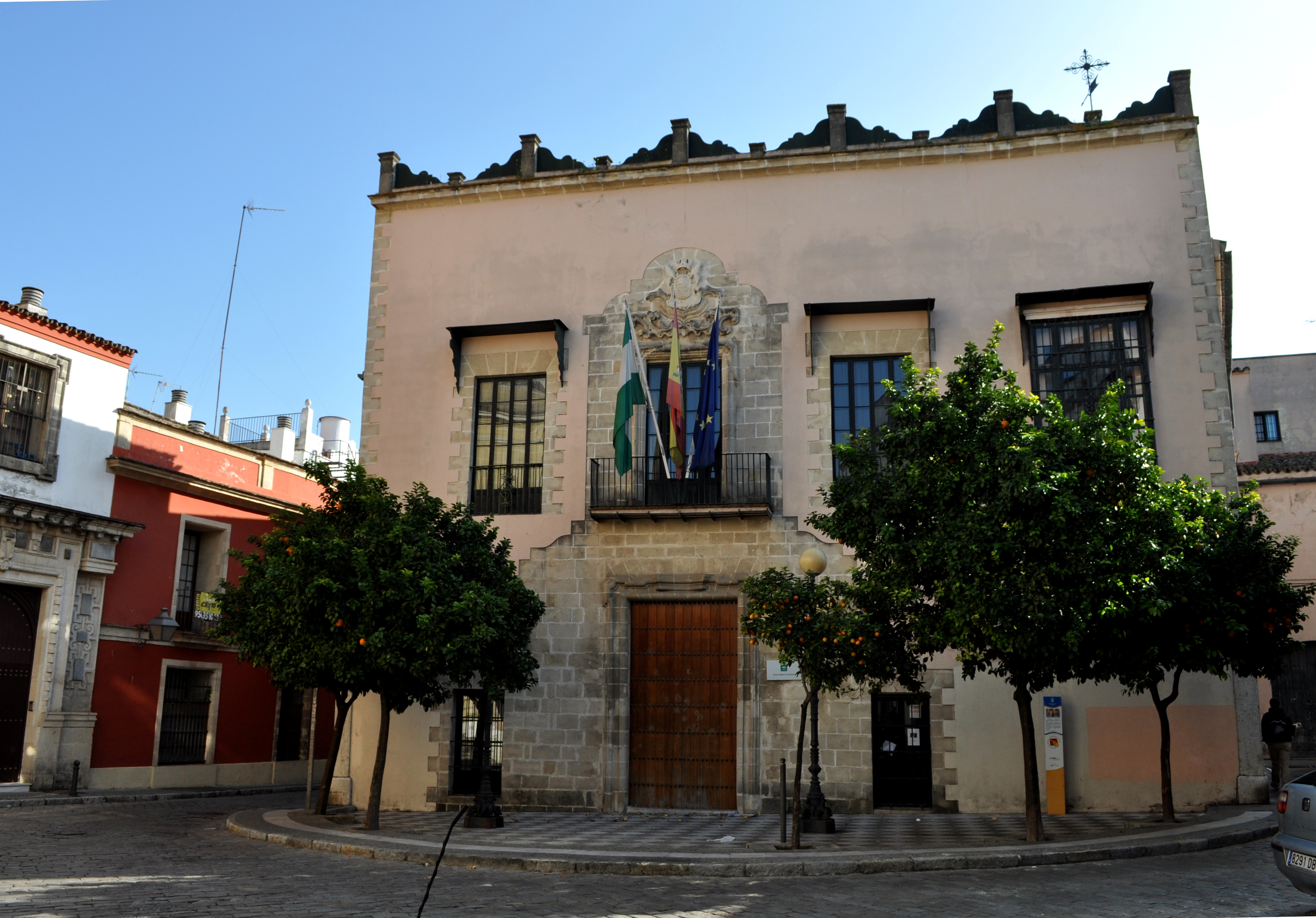 Permartin Palace, Jerez